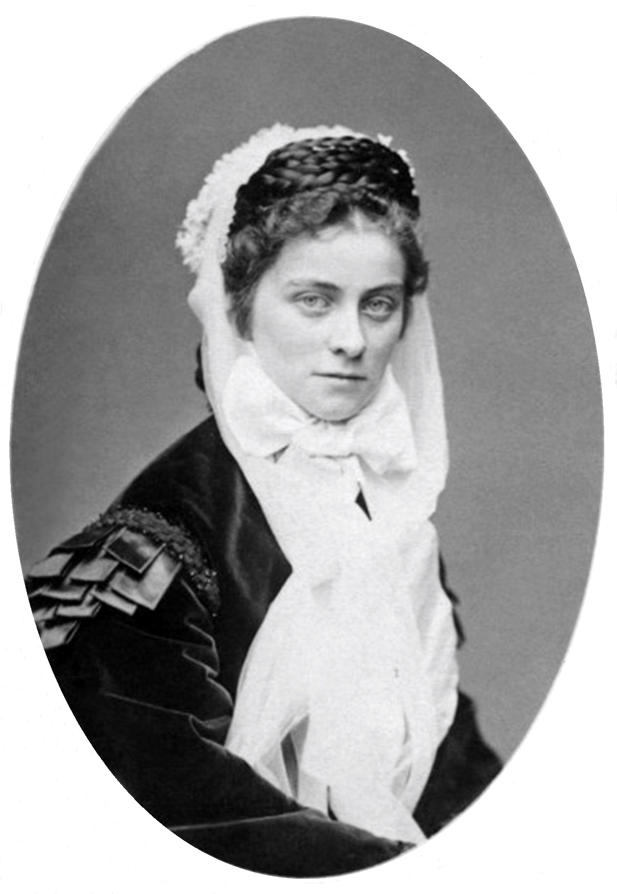 Sophie de Wittelsbach, duchess in Bavaria and, by her marriage, Duchess of Alençon, was born on 23 February 1847 in Munich (Bavaria) and died in a fire at the Bazaar of Charity in Paris in the 8th arrondissement on 4 May 1897.